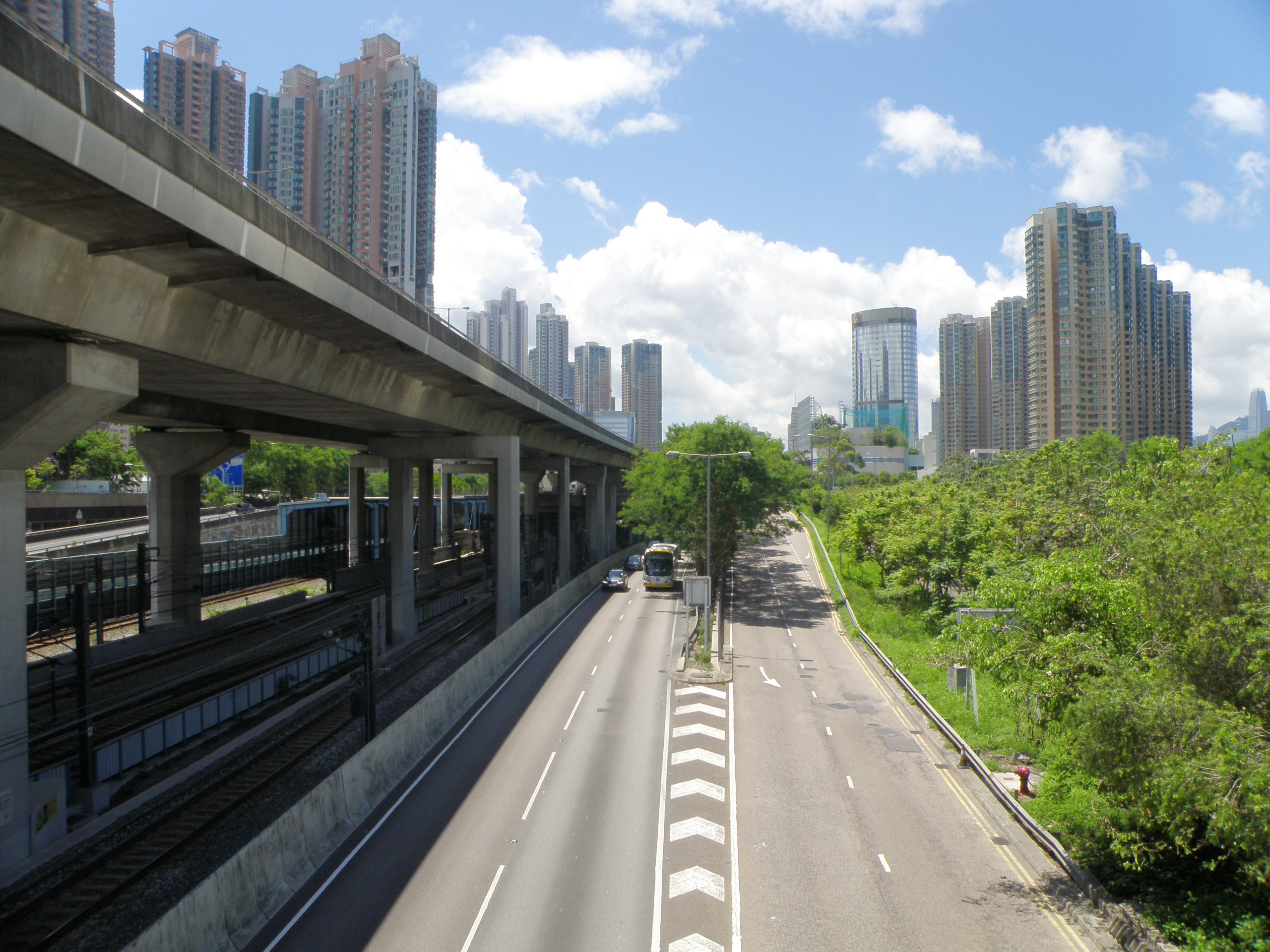 Lin Cheung Road in Tai Kok Tsui, Hong Kong.